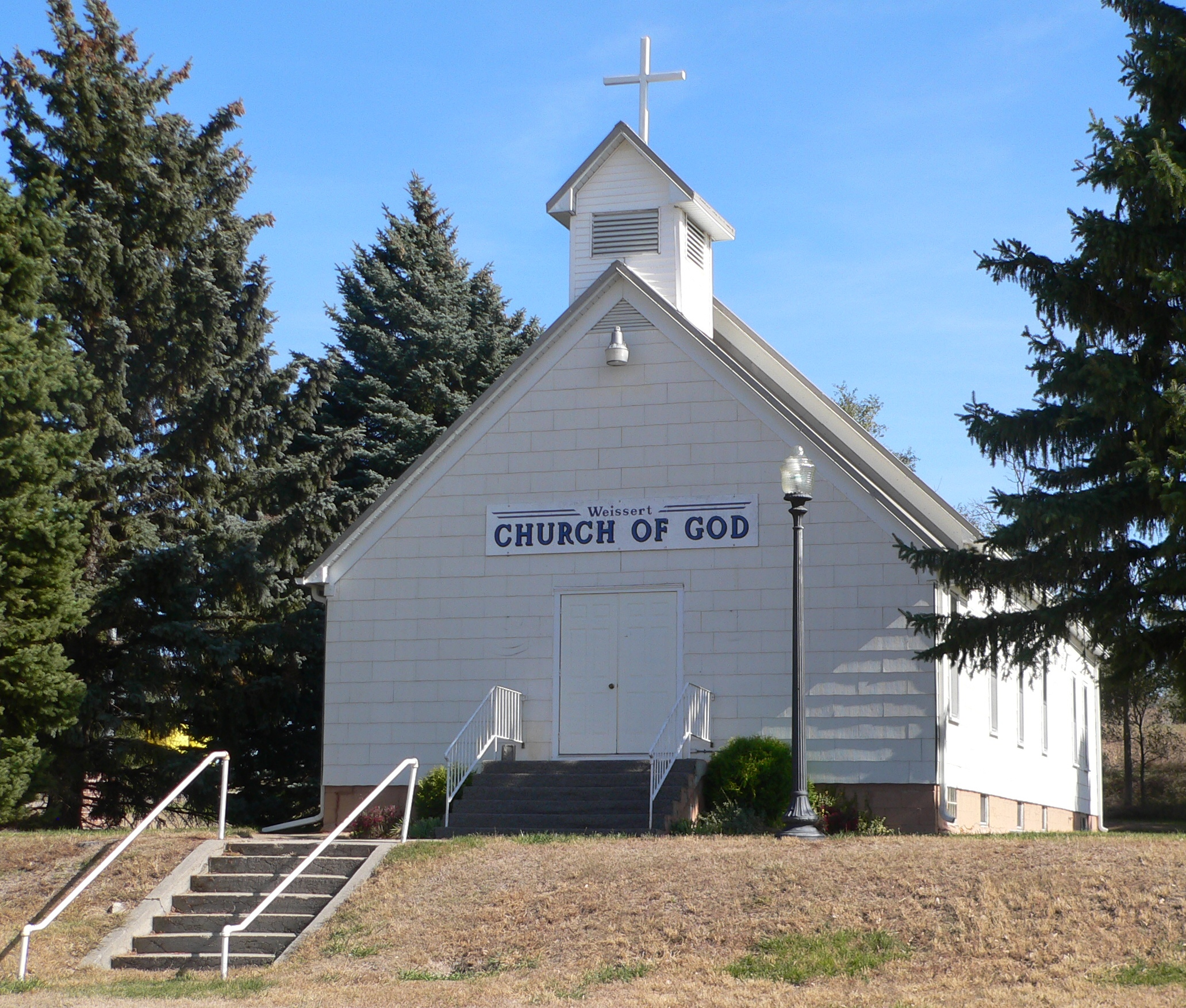 Church of God in Weissert, Nebraska.